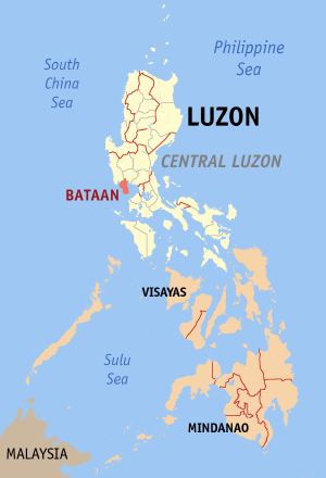 Map of the Philippines showing the location of Bataan